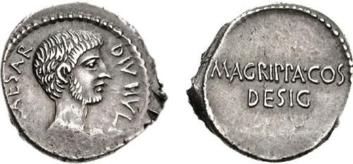 [Roman Imperatorial Issues] OCTAVIAN. 38 BC. AR Denarius (4.08 g, 12h). Military mint moving with Octavian. [IMP] CAESAR DIVI IVLI [F], bare head of Octavian right, wearing slight beard / M. AGRIPPA. COS/DESIG in two lines across field. Crawford 534/3; CRI 307; Sydenham 1331; Kestner -; BMCRR Gaul 103; RSC 545. Good VF, area of flat strike at base of neck, edge test marks from 3 to 4 o'clock, beautiful old gray toning. Lovely style. Rare. ($750)